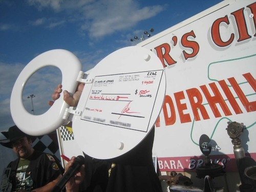 Prize money check drawn on the underside of a toilet seat